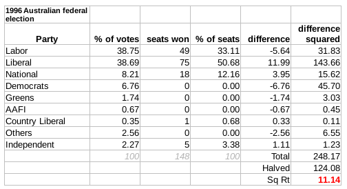 Gallagher Index, 1996 Australian Federal Election